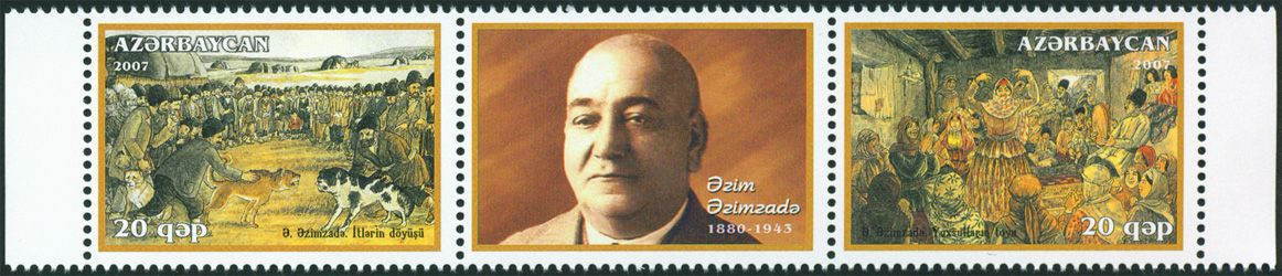 Stamp of Azerbaijan, "The Artist A. Azimzade."